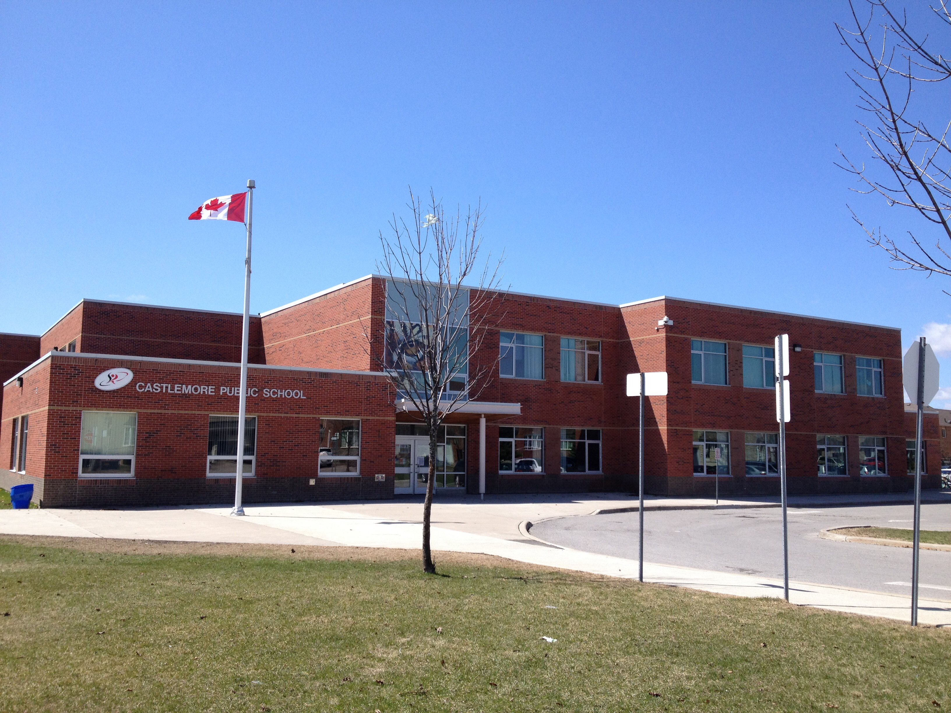 Castlemore Public School in Markham, Ontario.